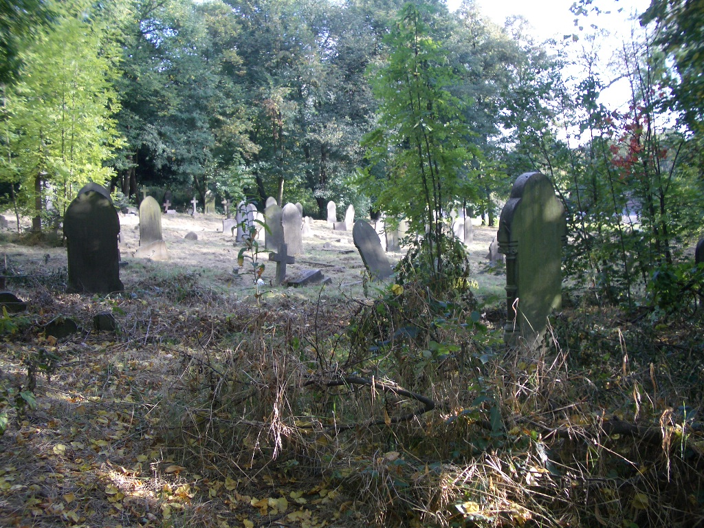 Photo taken by Simon Baddeley of St.Mary's Churchyard in October 2004 looking North East from close to the graveyards boundary with Handsworth Park Sibadd 20:28, 11 July 2006 (UTC)